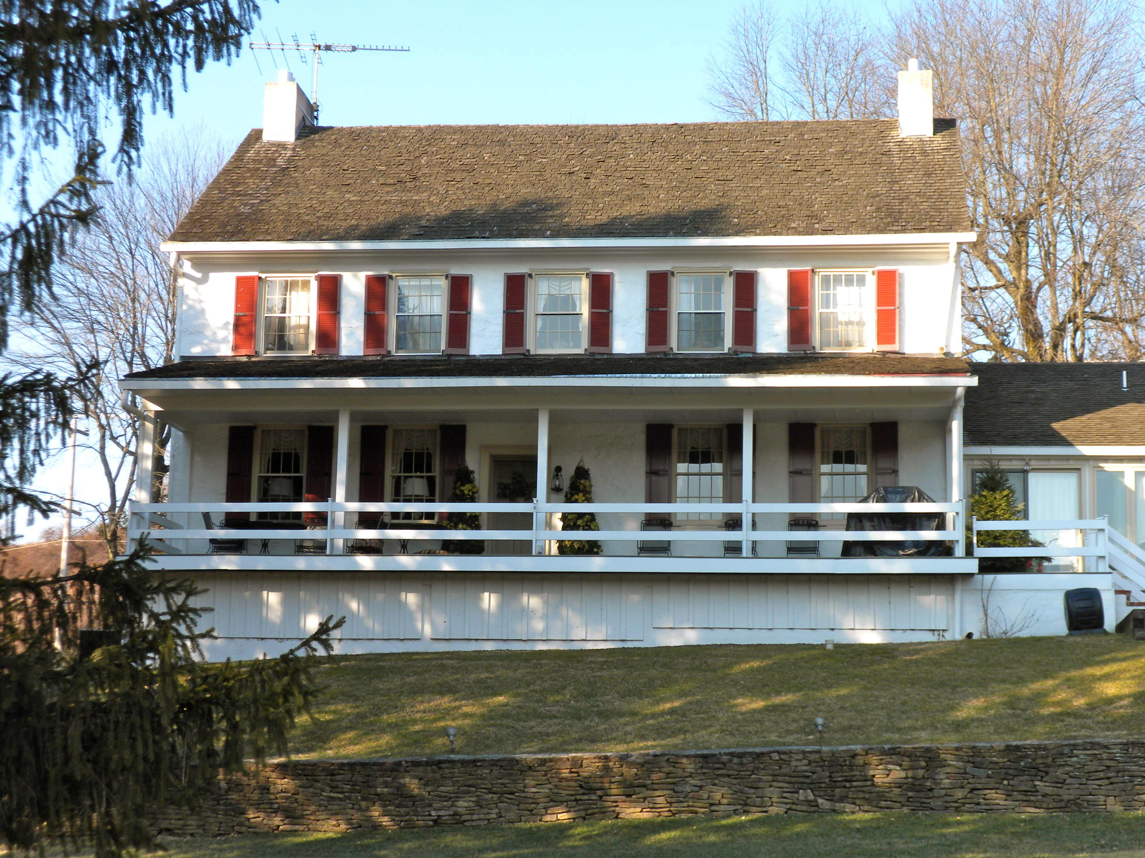 Baily Farm, on the south side of the corner of Strasburg and Broad Run Roads near Coatesville, Chester County, PA. On NRHP. Across the street and up the hill, on the north side of the intersection is Como Farm, also on NRHP. Both built roughly around 1800.